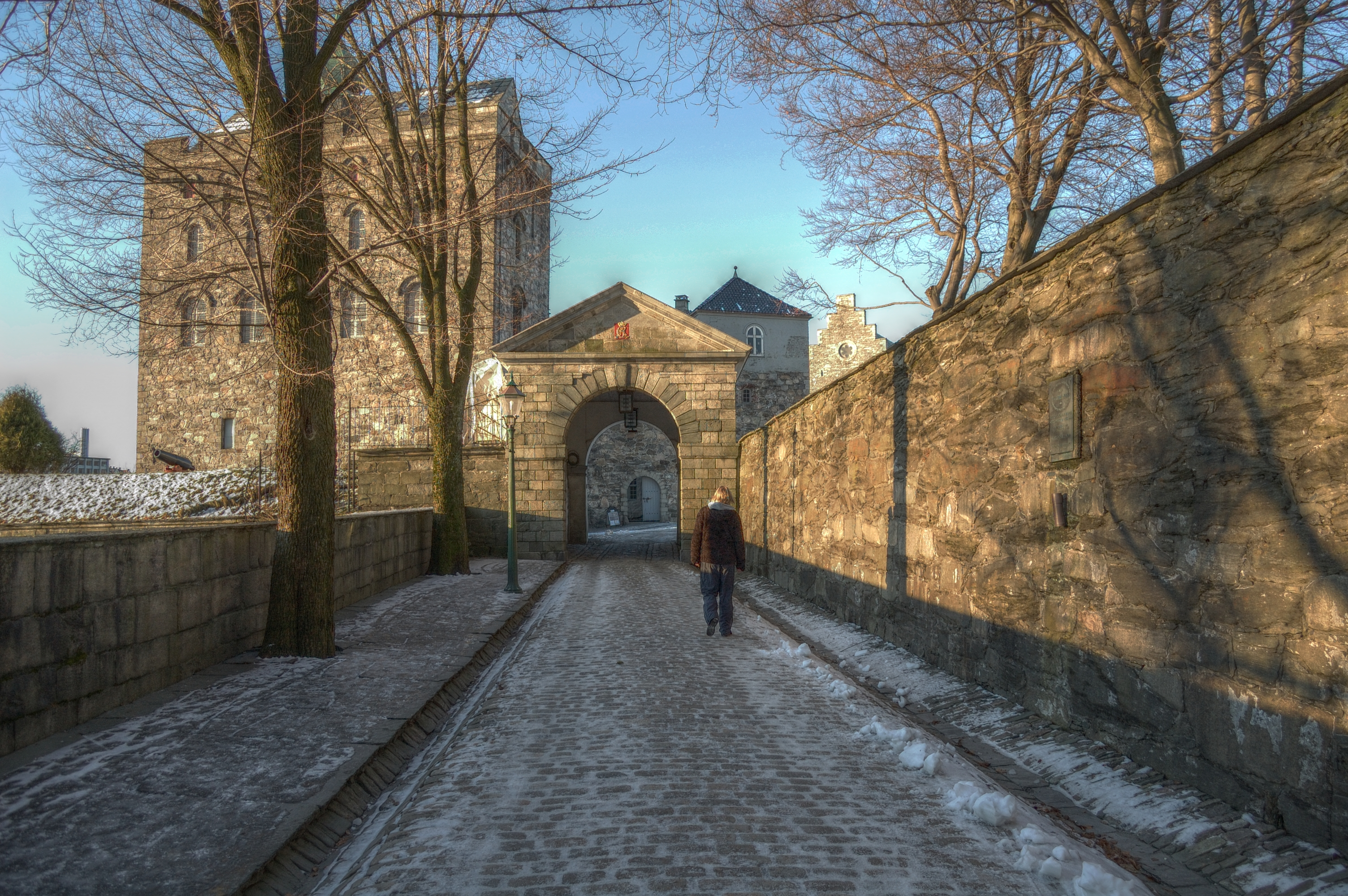 Bergenhus Fortress in Bergen, Norway.